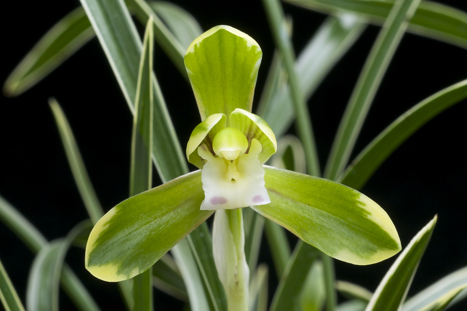 Cymbidium goeringii from China, Korea, Taiwan, Japan, the Ryukyu Islands and the western Himalayas